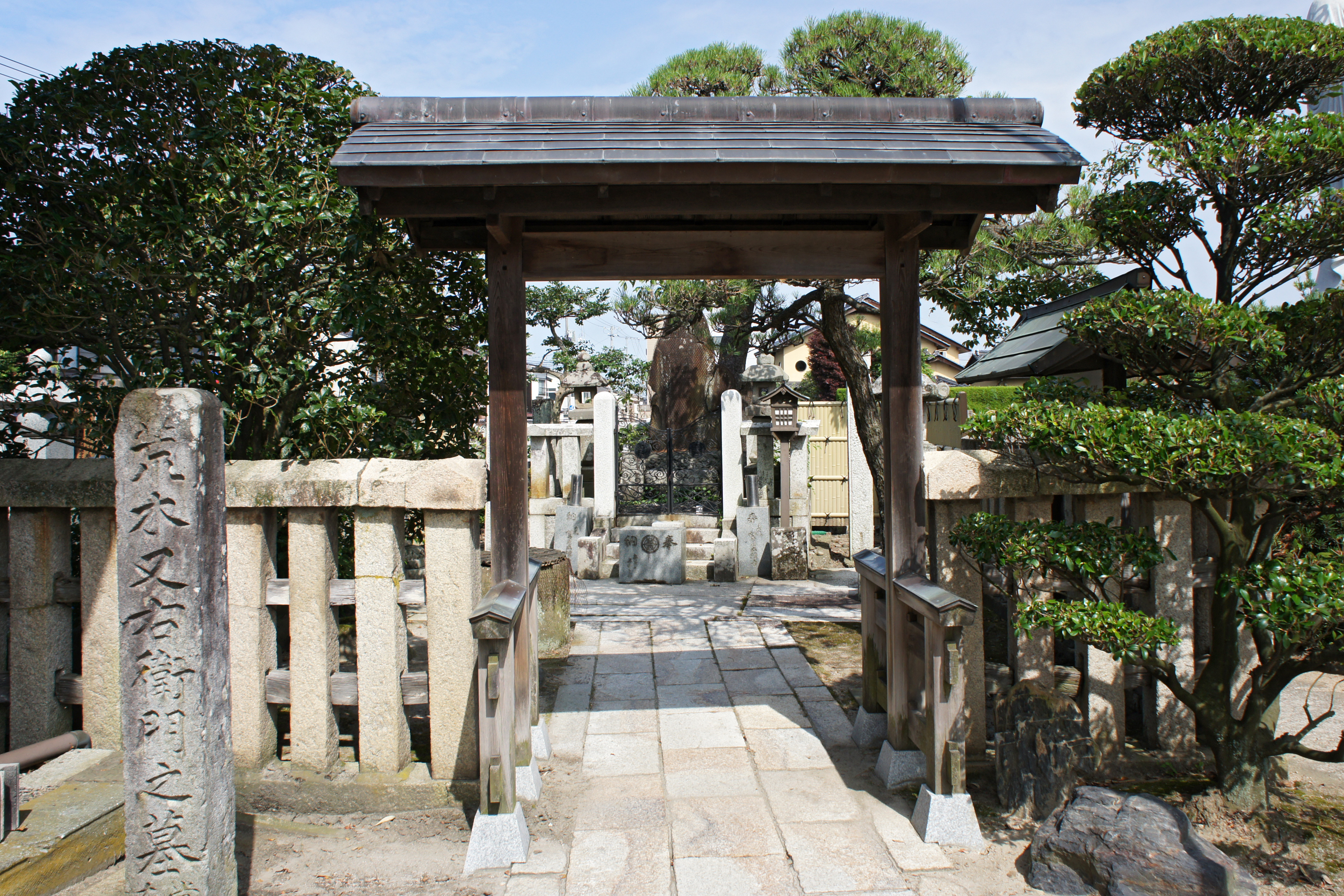 Genchuji in Tottori, Tottori prefecture, Japan.